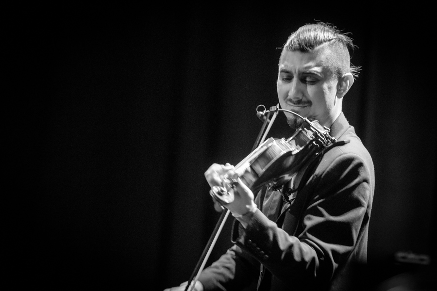 Adam Bałdych with his Quartet at Cosmopolite. The concert took place on 02. February 2018 in Oslo. Lineup: Adam Baldych (violin), Krzysztof Dys (piano), Michał Barański (double bass) and Dawid Fortuna (percussion).